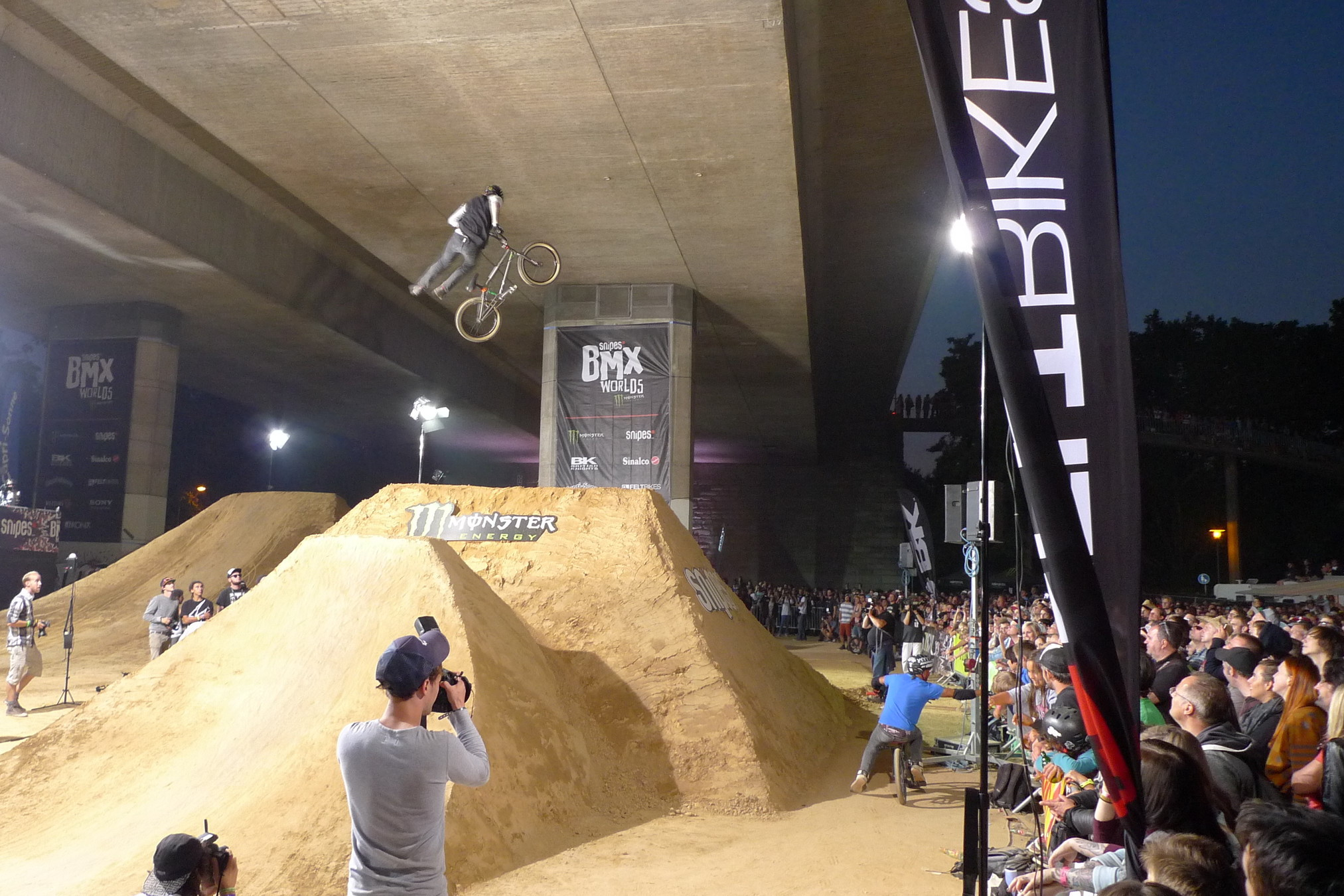 BMX Trick in dirt discipline at BMX-Worlds 2013 Cologne, Germany